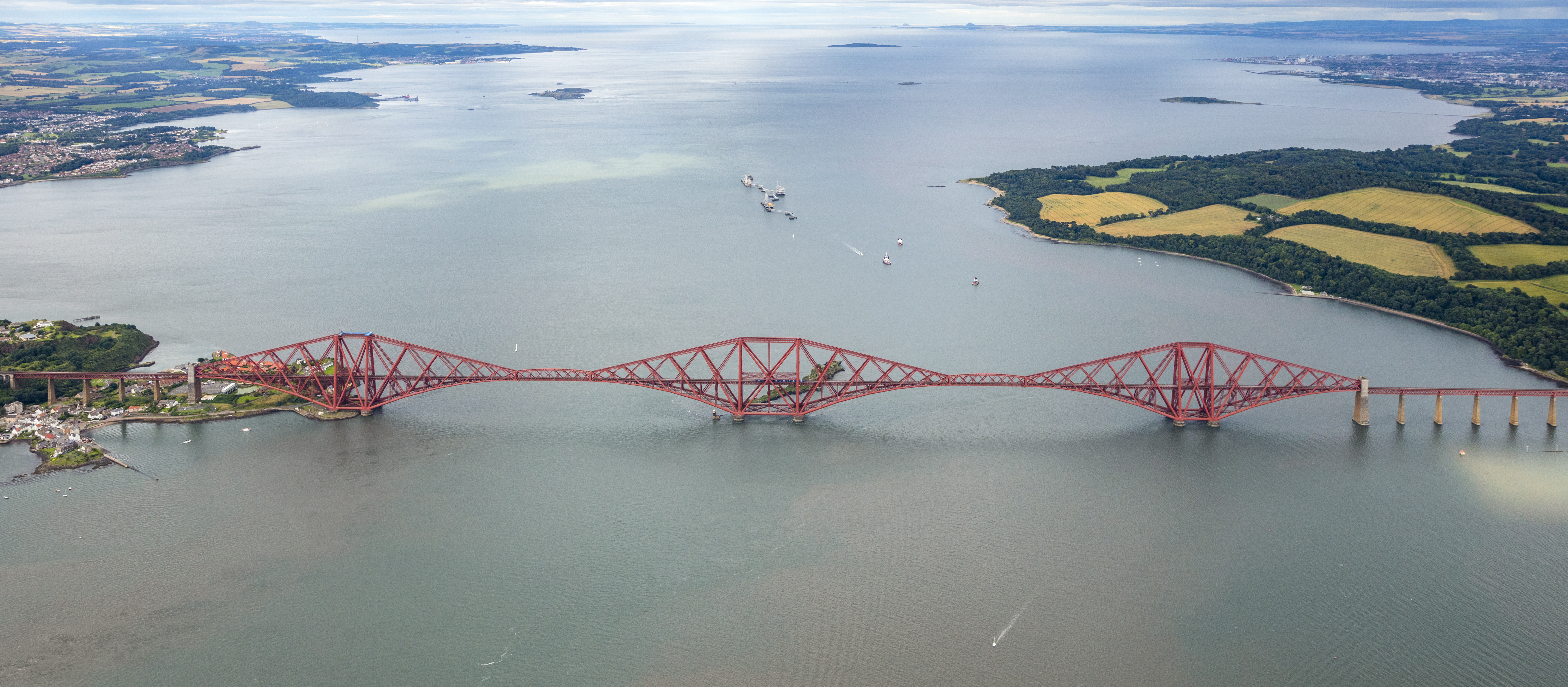 Aerial view of the Forth Bridge, Edinburgh, Scotland Wikidata has entry Q275 with data related to this item.